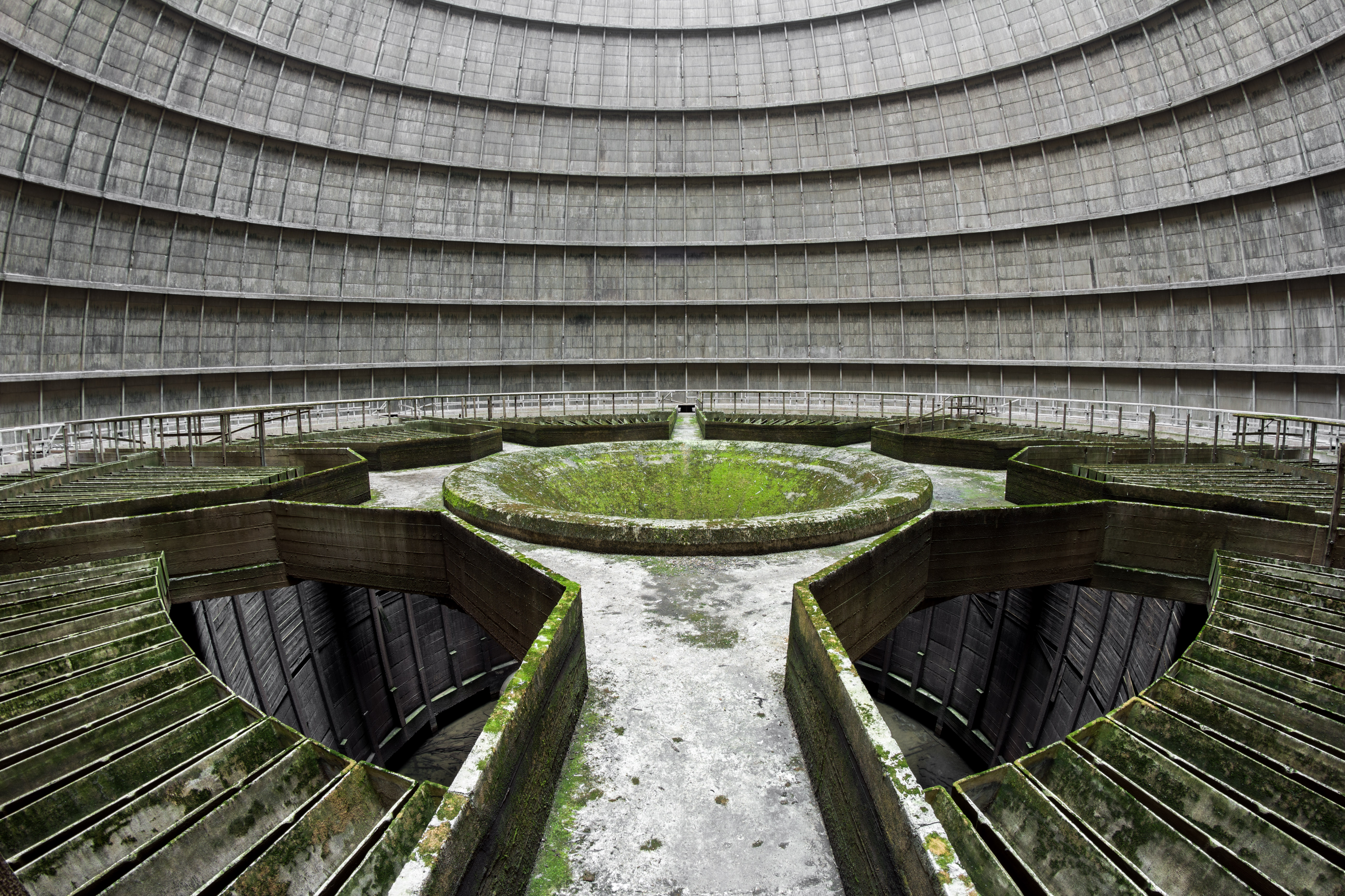 Cooling tower of Centrale IM, former power plant in Charleroi, Belgium